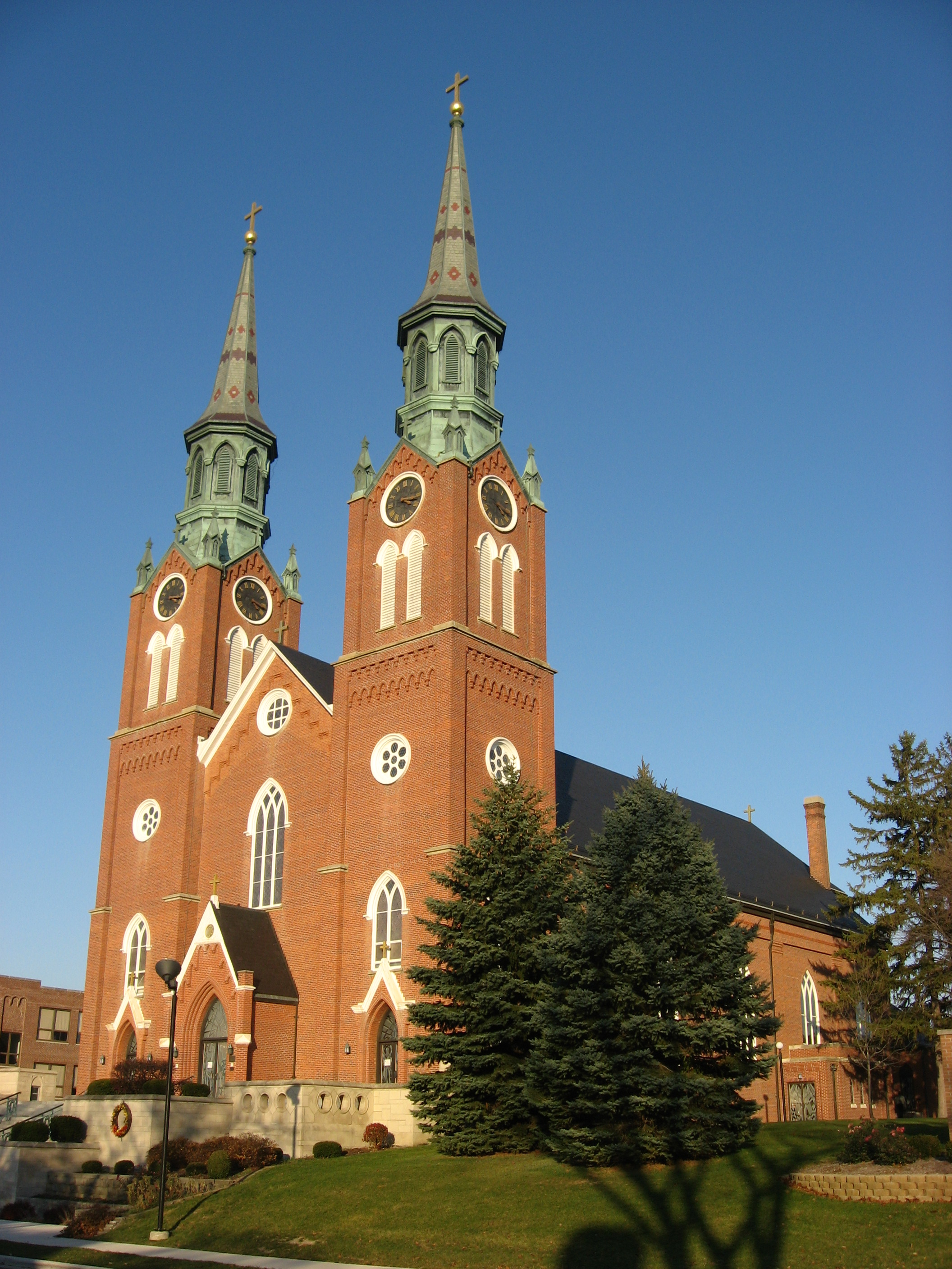 Front and southern side of St. Augustine's Catholic Church, located on N. Hanover Street in Minster, Ohio, United States. Built in 1848, the church was listed on the National Register of Historic Places as a part of the Cross-Tipped Churches of Ohio Thematic Resources. Church website.